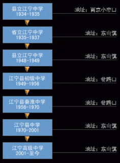 the history